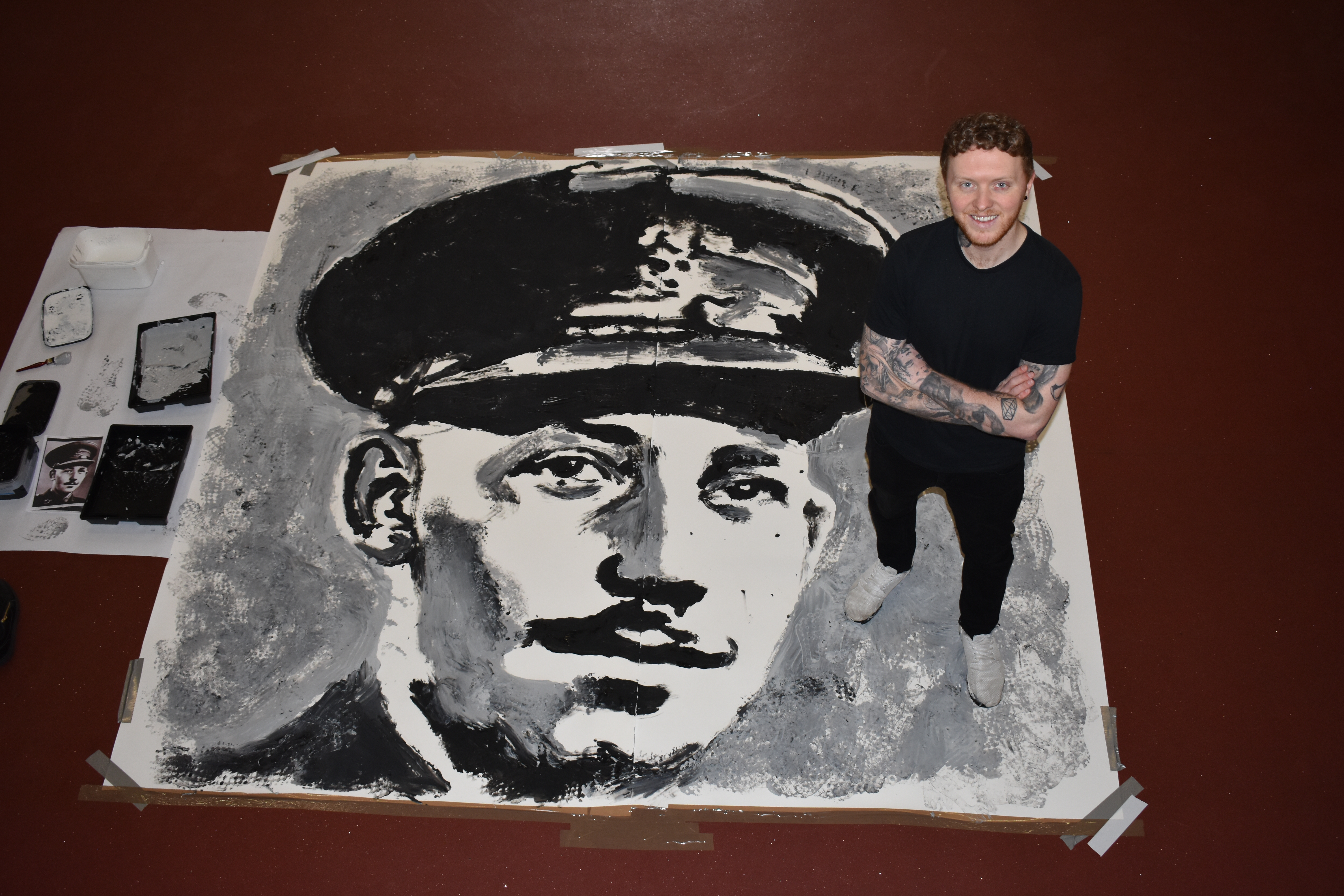 Nathan Wyburn with his foot painting of Captain Tom Moore, the NHS fundraiser of 2020. The original image used to create the painting is released in the public domain.